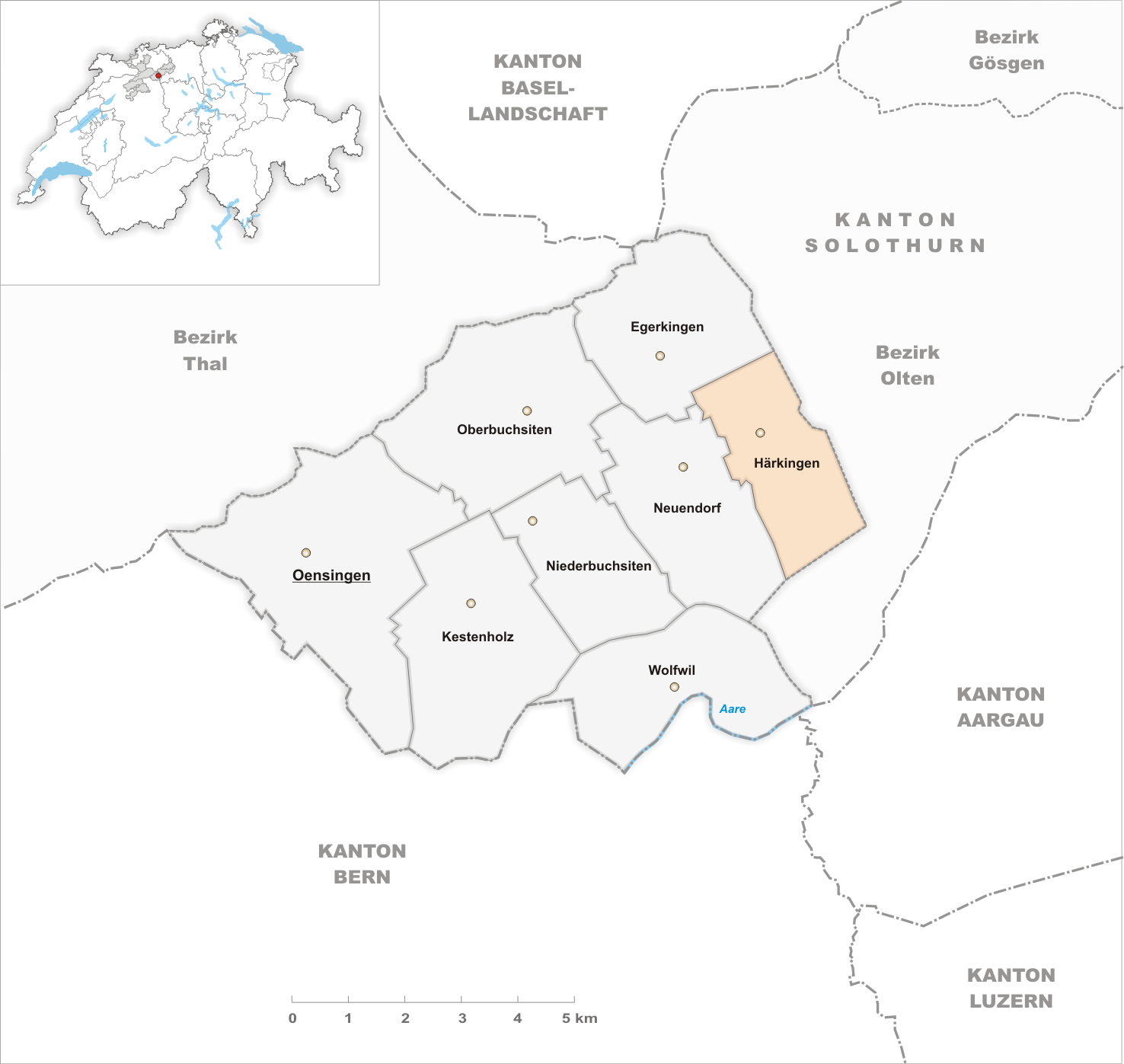 Municipality Härkingen